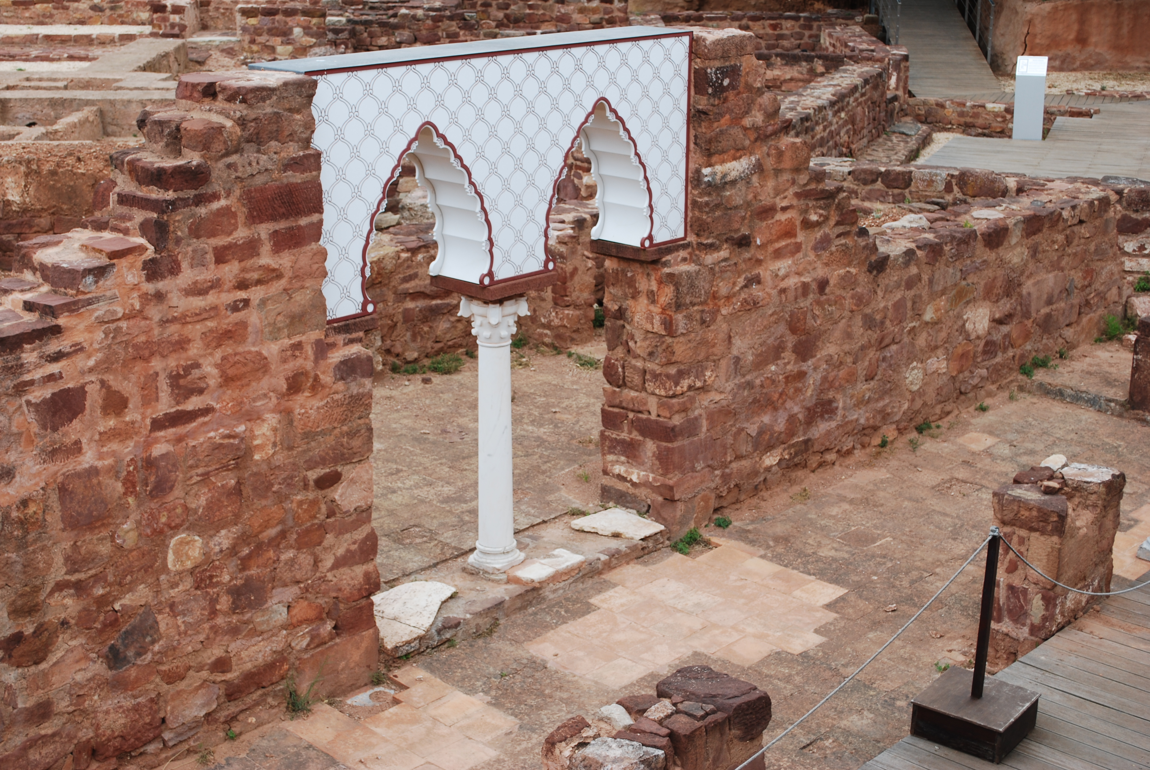 This file was uploaded for Wiki Loves Monuments in Portugal with the unique identifier 70541.